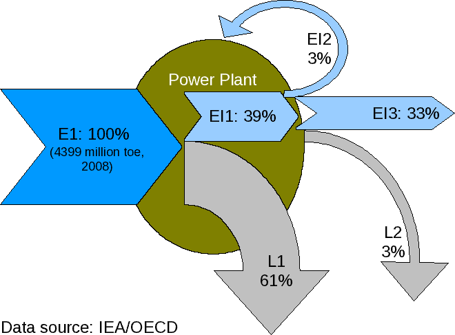 Energy flow of Power Plant, E1=Energy consumed, El1=Electricity generated, El2=Internal use, El3=Electricity for consumption, L1=Processing Loss, L2=Transmission Loss. (Result of year 2008)